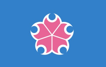 Flag of Motoyama Kochi